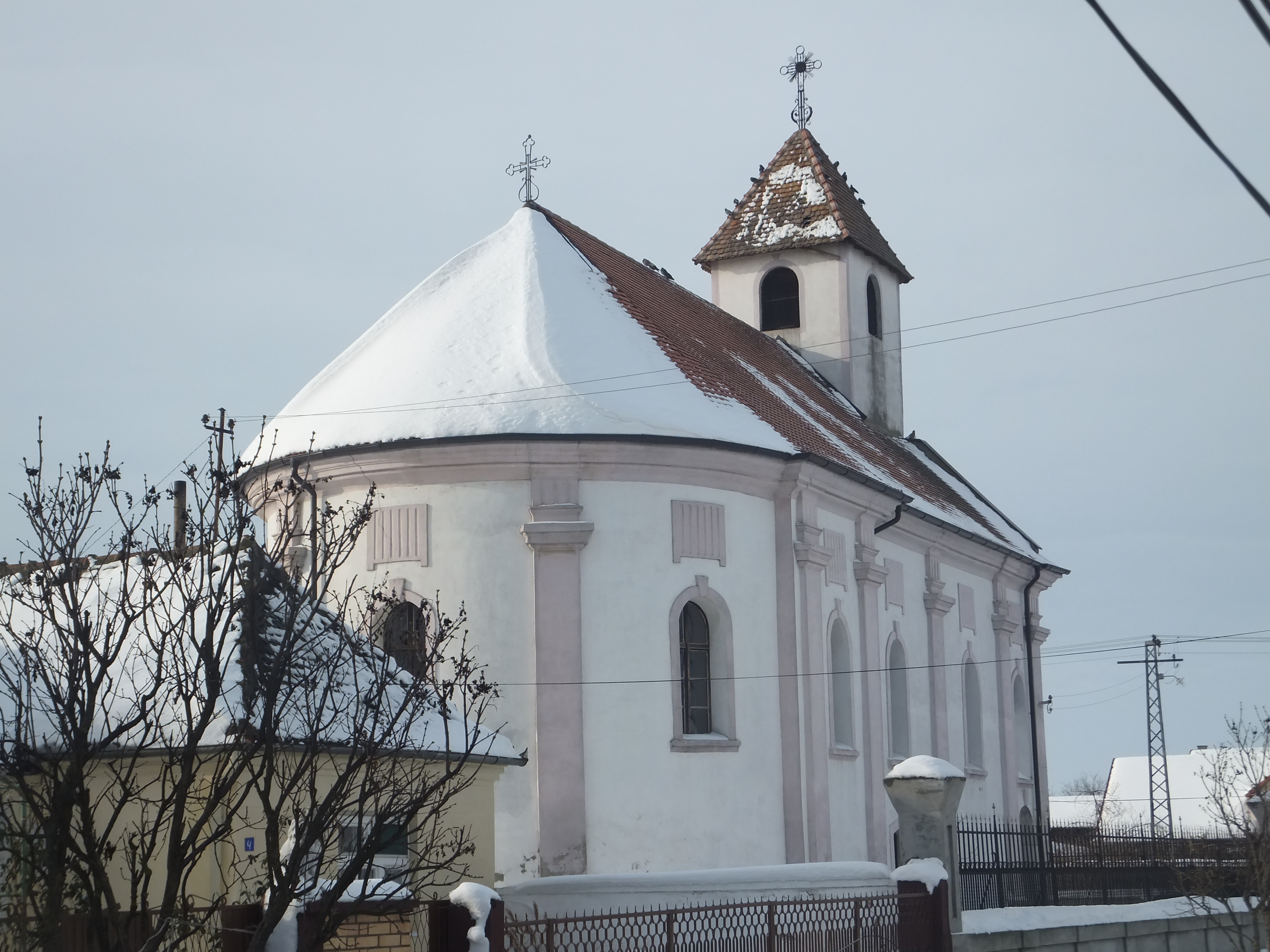 Church of Saint Nicholas in Prhovo